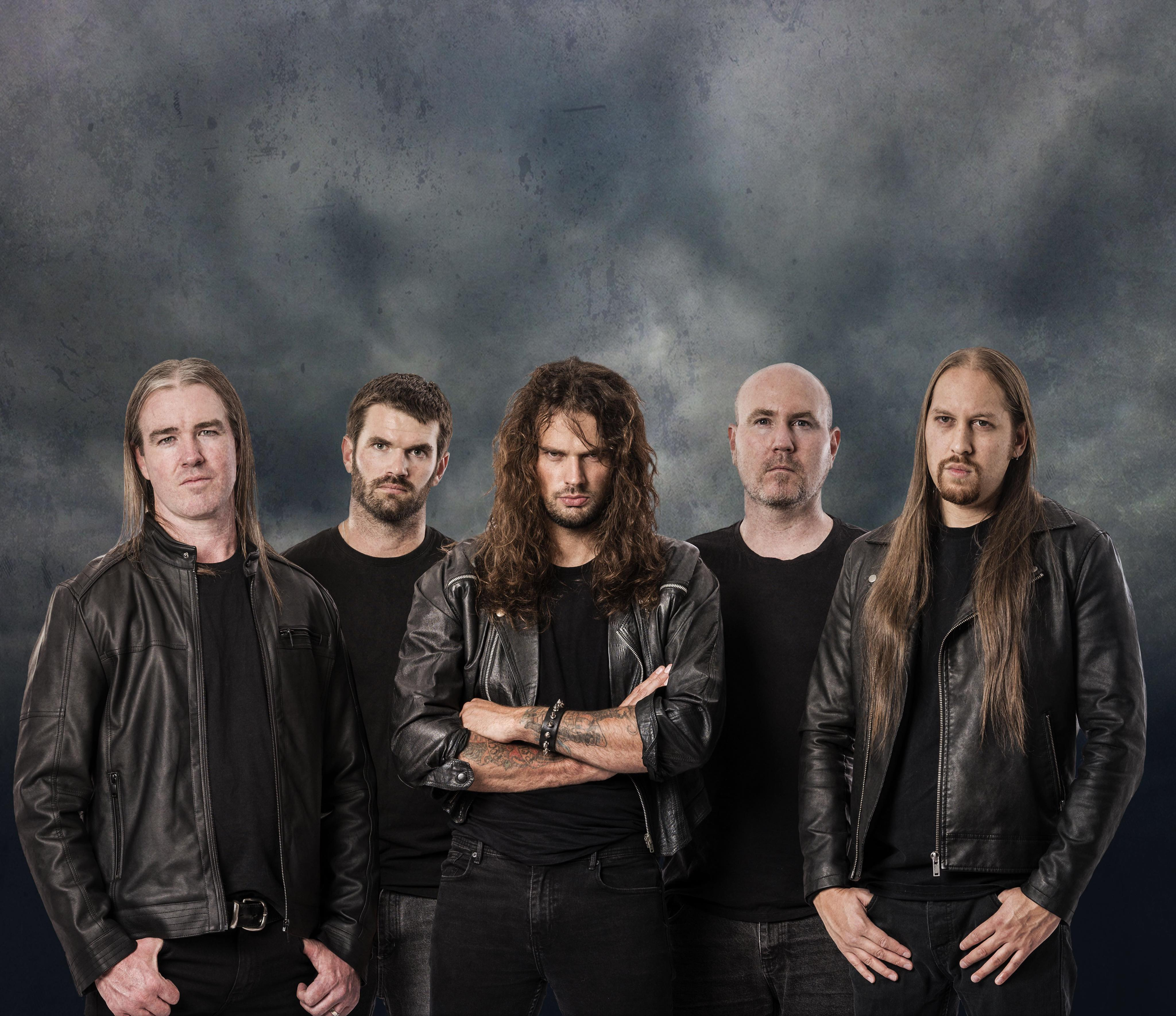 Silent Knight recording/touring lineup March 2020